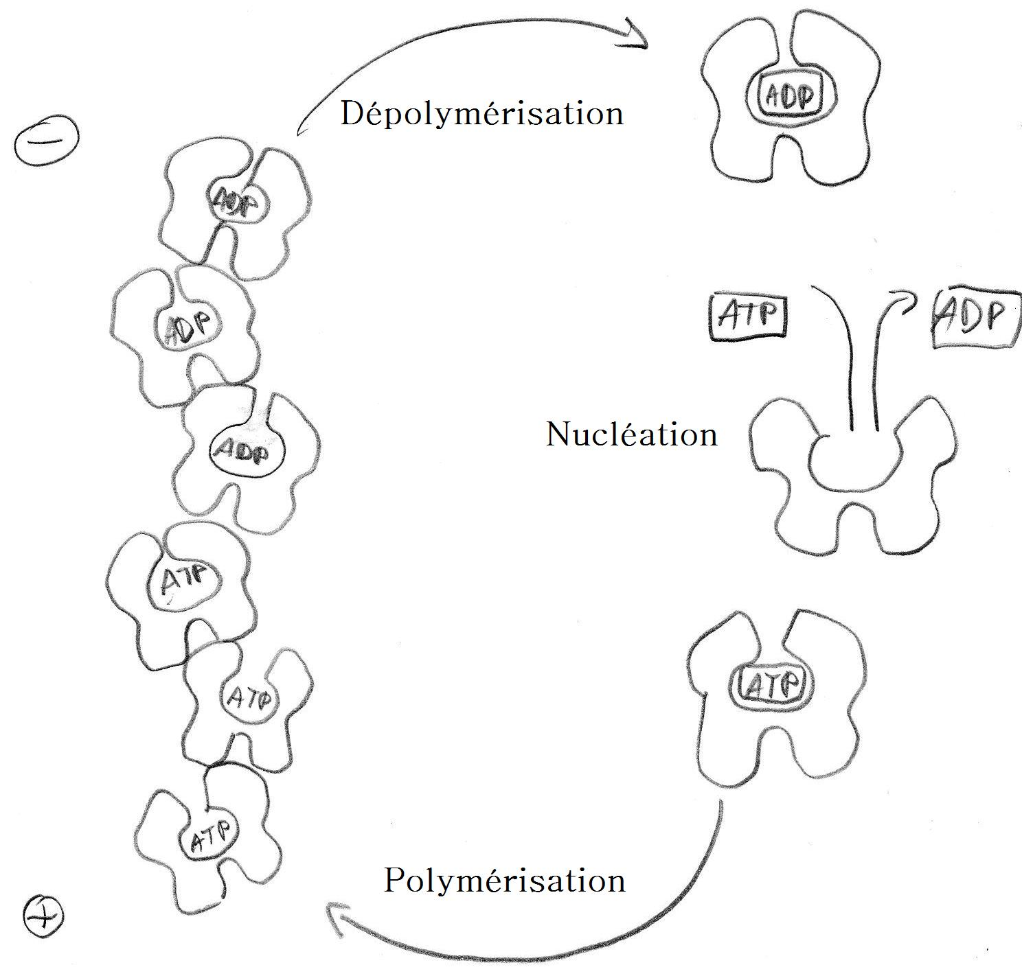 Explanatory diagram of the phenomenon of polymerization of actin filament